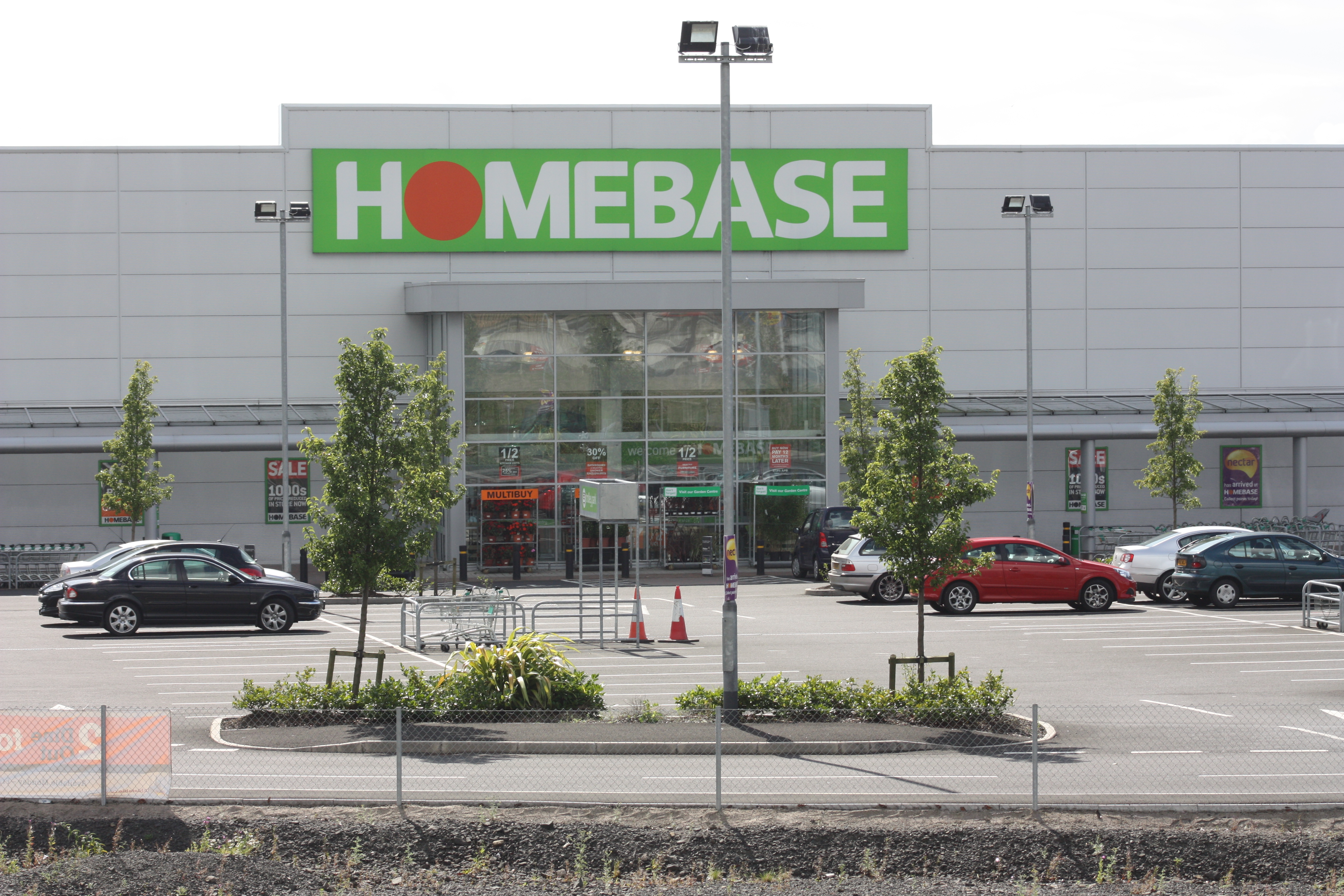 Homebase store beside Junction One Retail Park, Antrim, County Antrim, Northern Ireland, August 2009